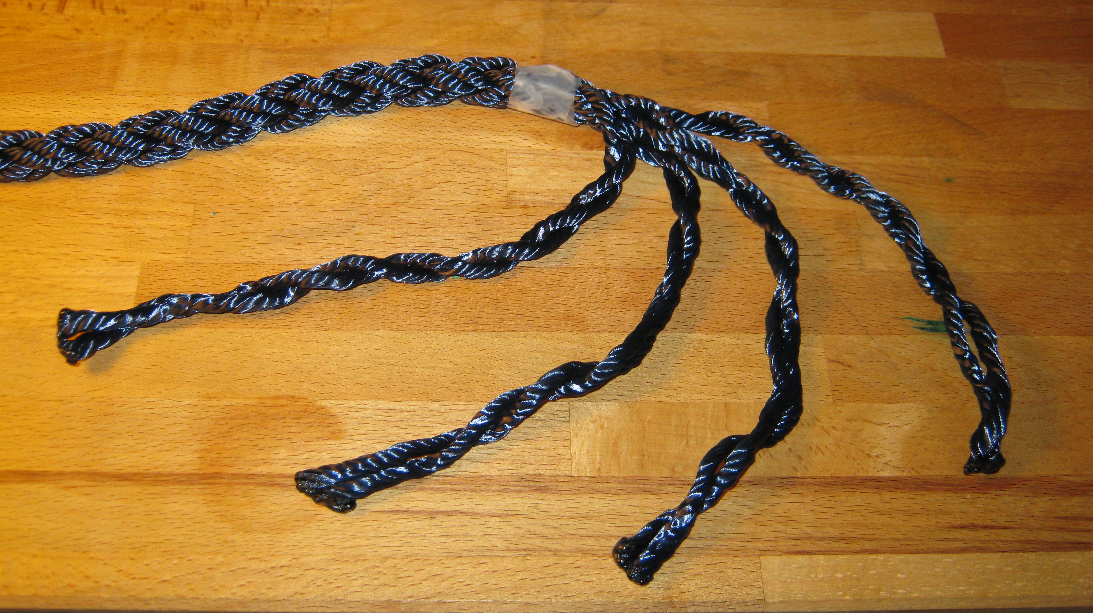 Squareline Spleiss 1